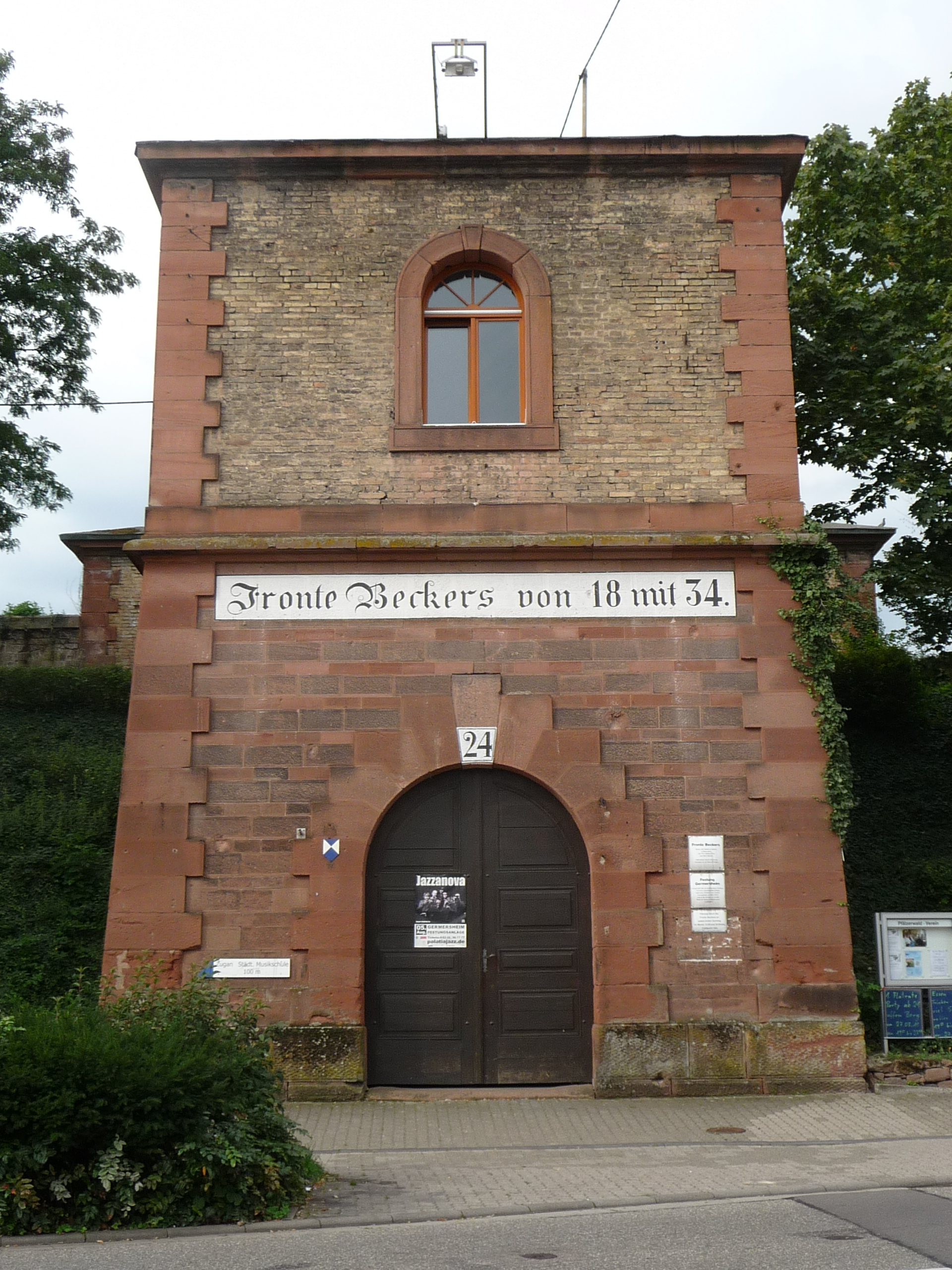 Festung Germersheim